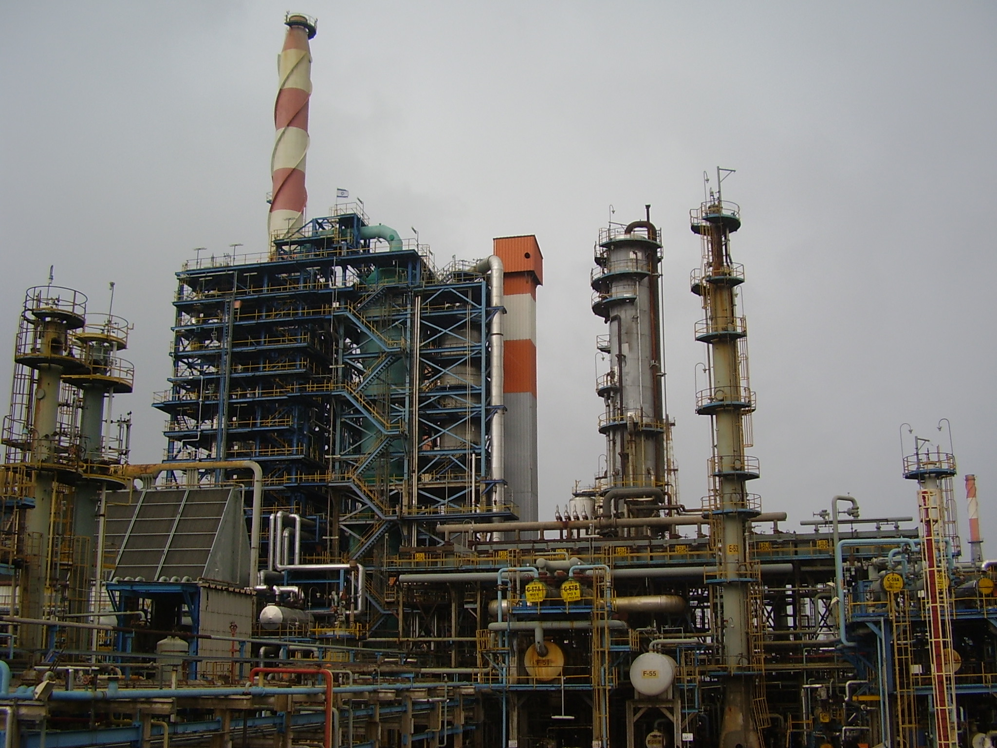 haifa oil refinery